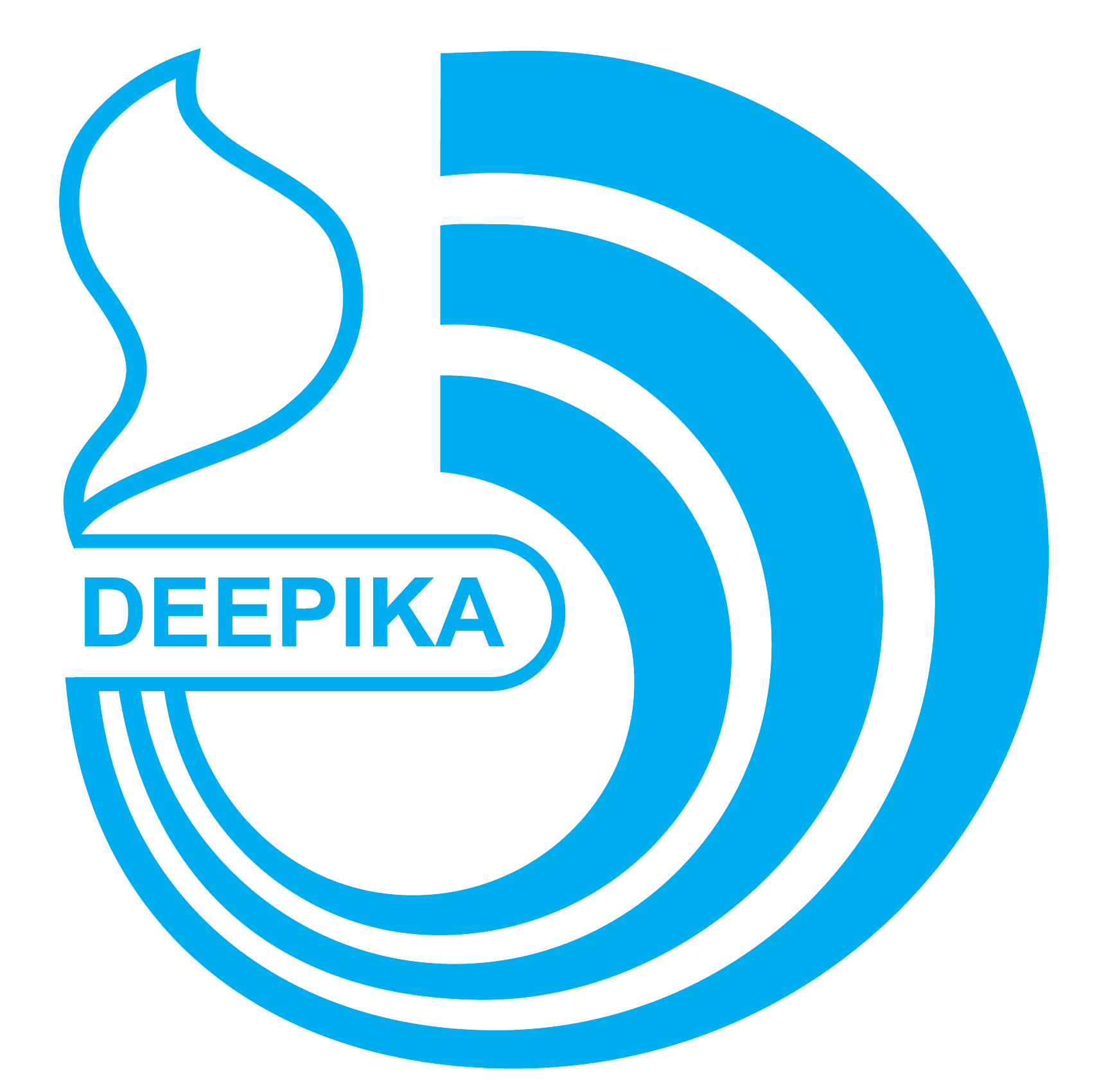 Official Logo of Deepika Newspaper